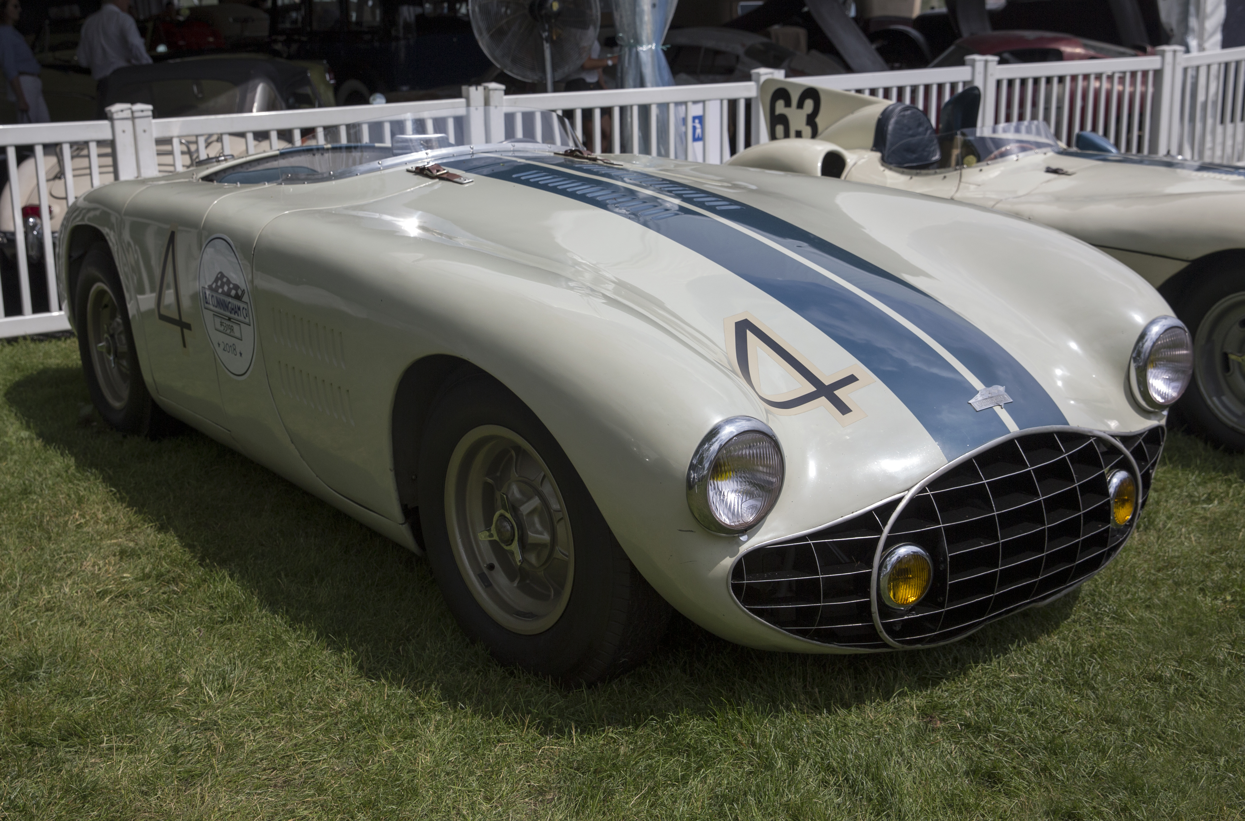 The 1953 Cunningham C5-R (chassis 5319R) at the 2018 Greenwich Concours d'Elegance. Finished third at Le Mans in 1953, for which it was built, with Phil Walters and John Fitch at the wheel. Nicknamed "The Smiling Shark" for obvious reasons. Currently with the the Colliers Collection at Florida's Revs Institute.